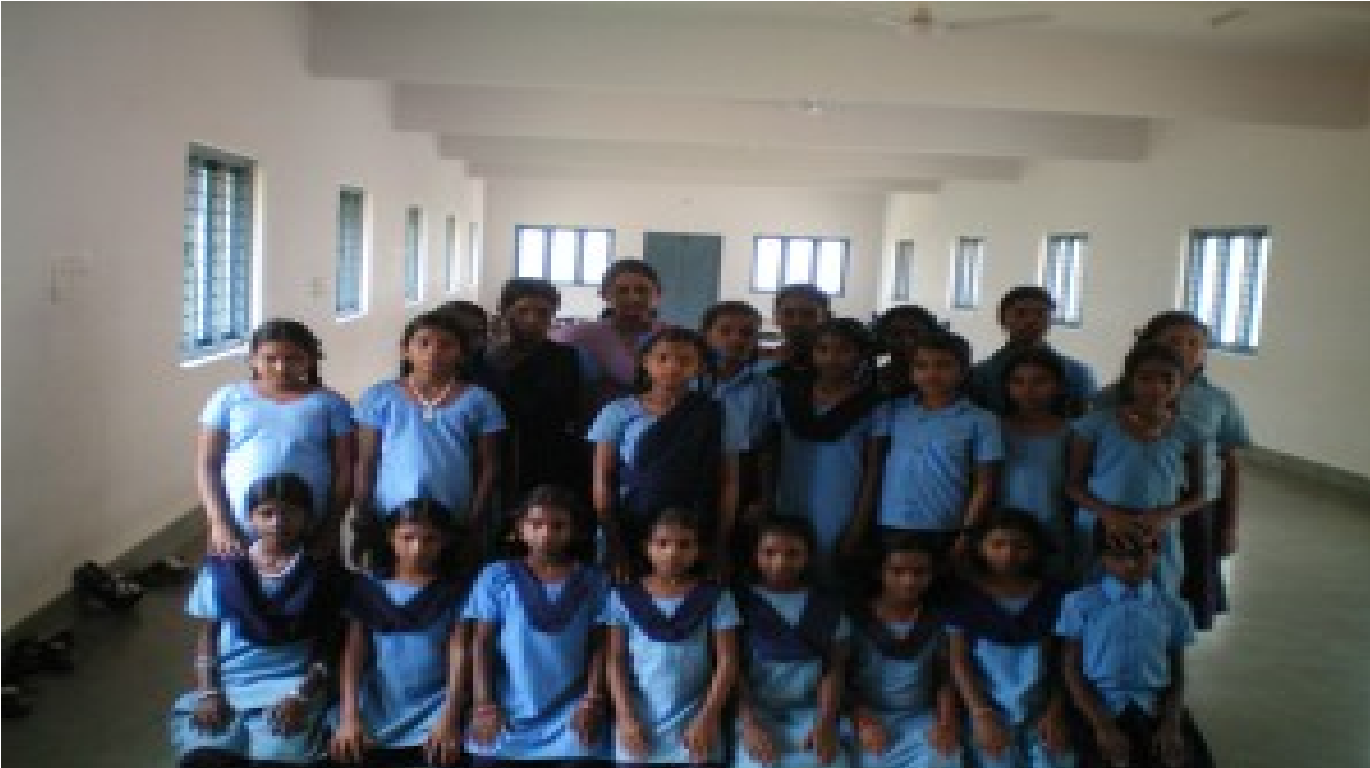 Singing Skylarks Volunteer Neha - teaching students of Govt School in KR Puram Area